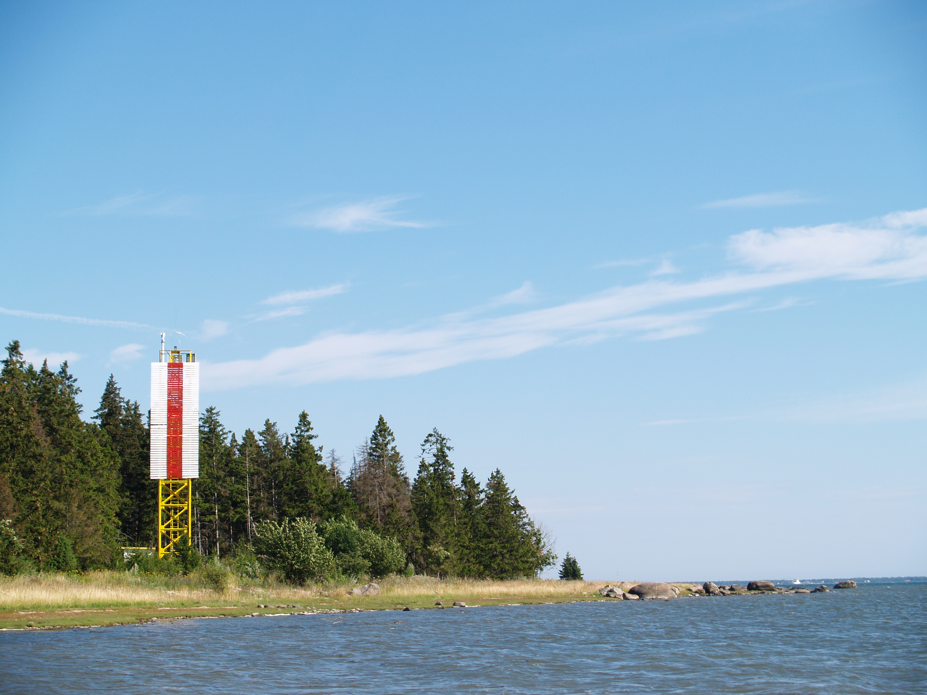 Kessu upper leading light beacon. Lower light beackon is shown in that picture